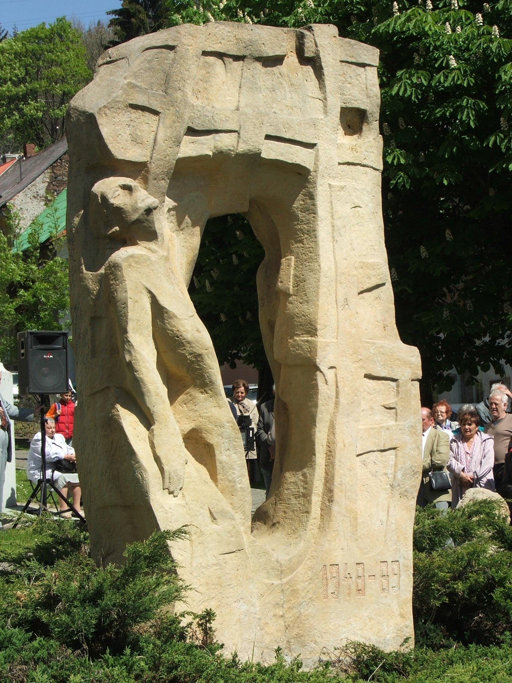 Monument to victims of communist terror and political prisoners of labour camps in Czechoslovakia (1948-1989). Jáchymov (Czechia) Foto taken during memorial action Jáchymov "Hell" 2007.